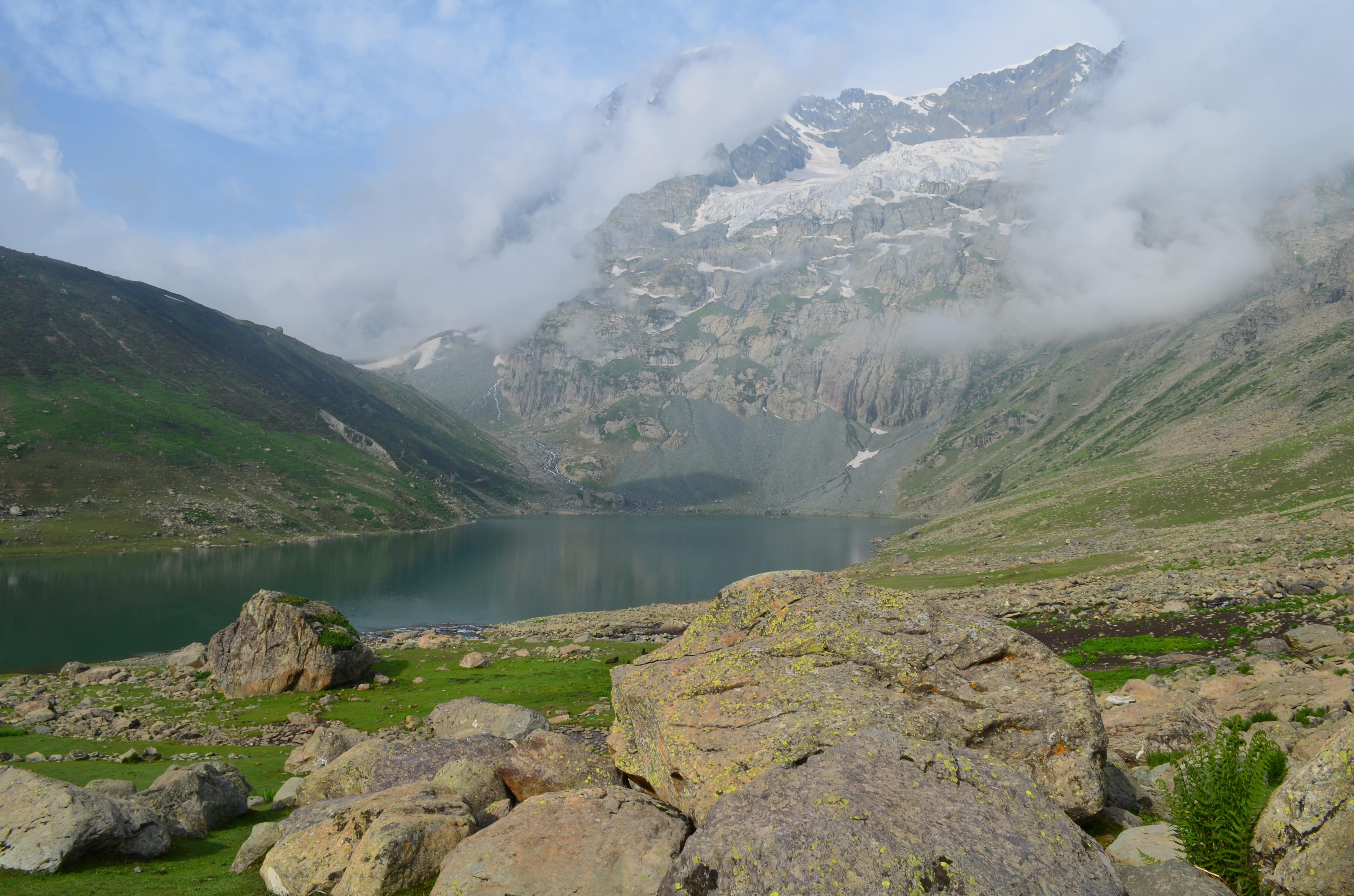 Nundkol lake, Mount Harmukh at the background. Picture taken by my friend Rajnish Pathak.